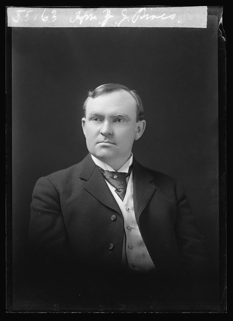 Zeno J. Rives photographed by C. M. Bell Studio